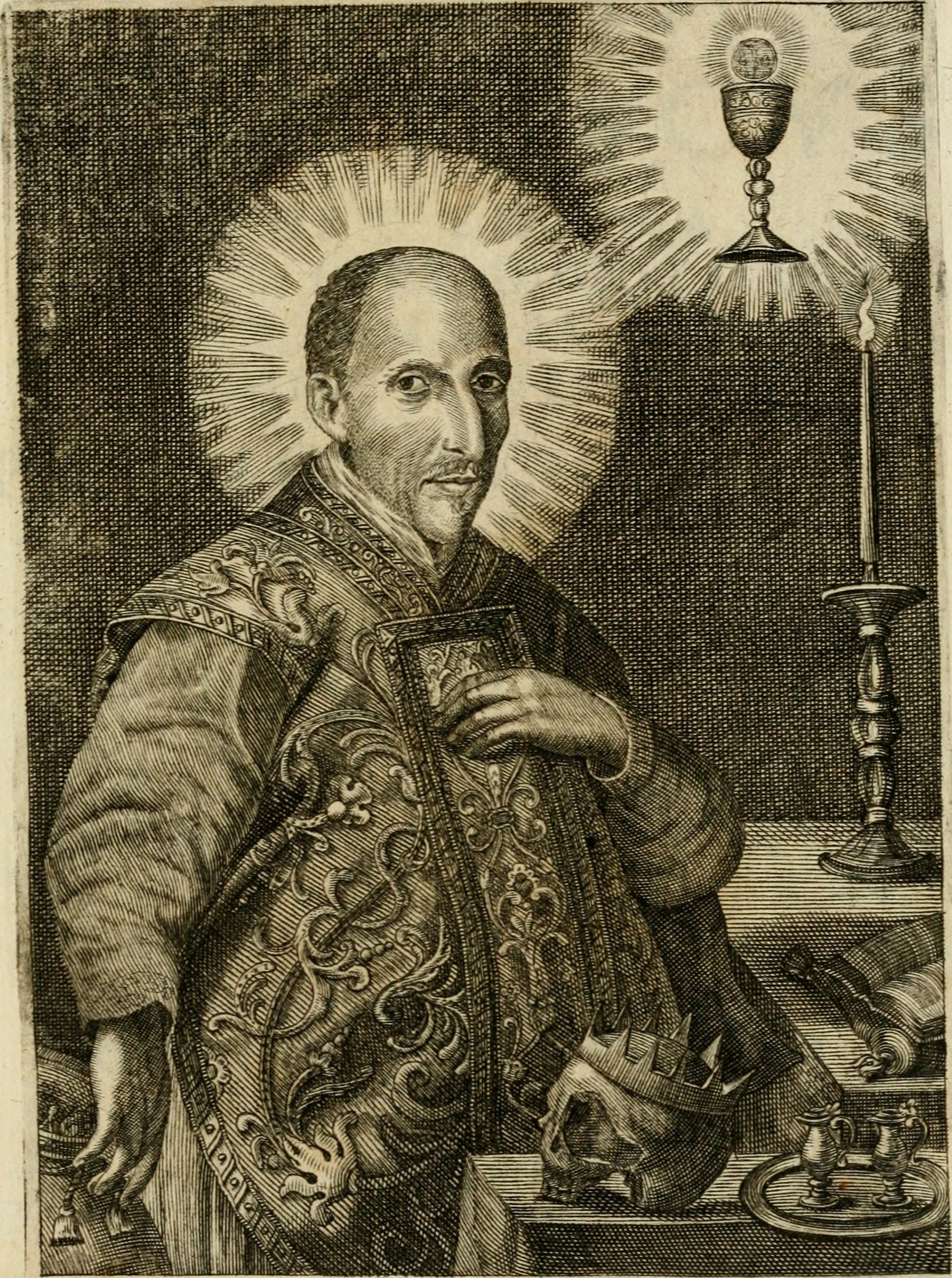 Title: Divo Francisco Borgiæ è Duce Gandiæ tertio, Soc. Jesu generali, à Clemente X Pont. Max. sanctorum clitum fastis ad scripto, Encomia emblemate, prosa, versu in de salvatoris Soc. Iesv ad S. Clementem, publice affixa in perpetuum amoris monumentum re ac typis incidi fecerunt, dum philosophum eius auspicys cptam primâ laureâ coronarent Year: 1672 (1670s) Authors: Firmus, Georgius, 1635-1683 Damperviel, J. G Physici Pragenses Subjects: Borja, Francisco de, Saint, 1510-1572 Emblems Publisher: (Prague : s.n.) Text Appearing Before Image: •4^; H IC Text Appearing After Image: S.FKA^HCISCVS fiOKaiA. SOCIE.TATI5 ^ ? € 5 V J. G. diarn/urvuLJ c-ulp.. HIC STETIT FRANGISGVS POST SUMMA,GENLIS, OPES, DIGNITATES,M ETAM HABUITOMNIUM CONTEMPTUM. P R I N C I P I, R E G I ^, C JE S A RE JE. DOMUM PR/ETULIT RELIGIOSAM; RELIGIOSUS ANTE RELIGIONEM, RECENS NATAM ELEGIT, IPSE NOVO PARTUNATU S, ECINERIBUS PHOENIX. UNO PASSUO M N I LI M V 1 R T U T U MG R A D U STRANSCENDIT. C 2 Redc Reac Philofophi: c orruptio unius Gencratio e(l alterius : Quando Corruptio IfabellaiGtncratio eftr &Nativitas Borgi je. 6 FrancisceIItane etiam hic vidii^ej perifTeeft .Ut n^ formflr quidem cadaver contemplariliceat,Quin eo ipfo C\s filius Mortis ?Std fortem tuam, Dux inclytej n^ accufa:Imperantem Regibus matrem naclus esTantum abeftut GenerisclaritatemNovis NataHbus obfcuraris.Corruptoexranguine,qusnarcipolTit utilitas?Dudum quafivit Pfalmicen,Sic genitus, refpondes Qusftioni:Stupendam adeo Genefim quia non (omniavit antiquitas,Idcirco eam Theogonia? non attexuit:Tunctamen BORGf/F, proxim